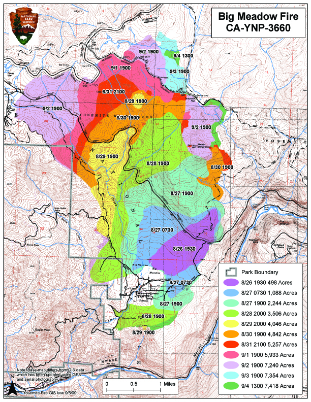 Progression of Big Meadow wildfire, Mariposa County, California.